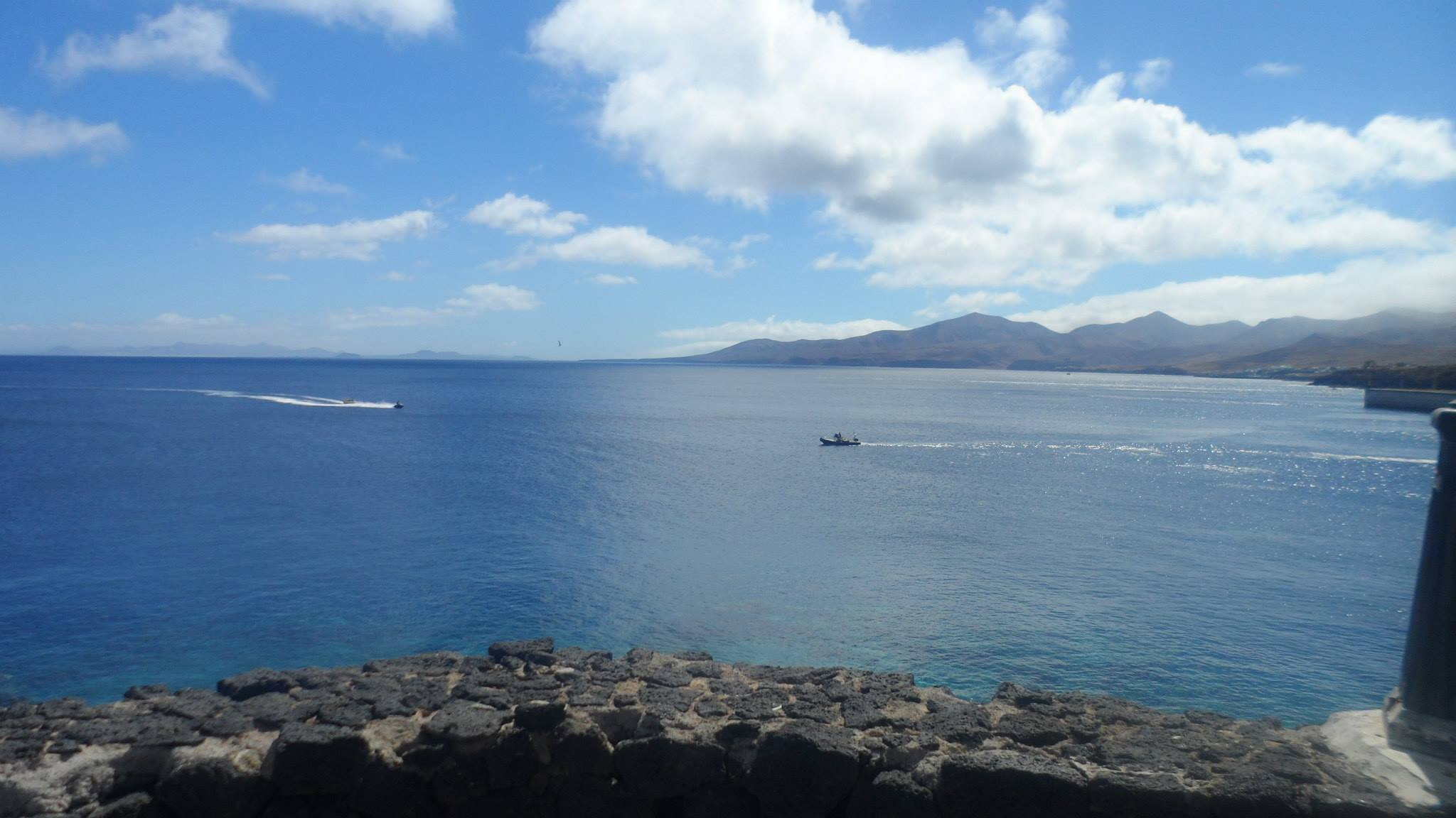 Stunning view of the harbour in the old town in Puerto Del Carmen